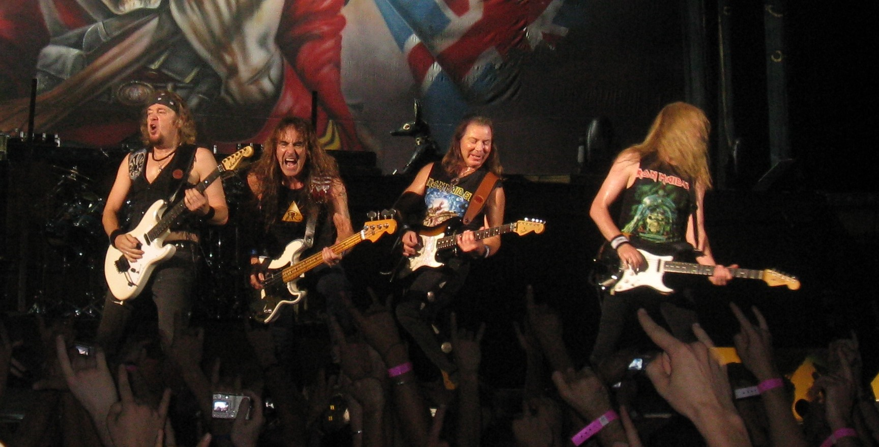 Iron Maiden in Paris (Bercy Arena) on July 1st 2008